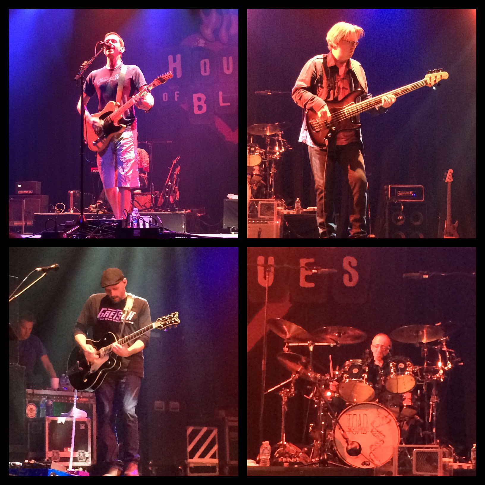 Toad the Wet Sprocket at House of Blues in Downtown Disney West Side on June 10, 2014.